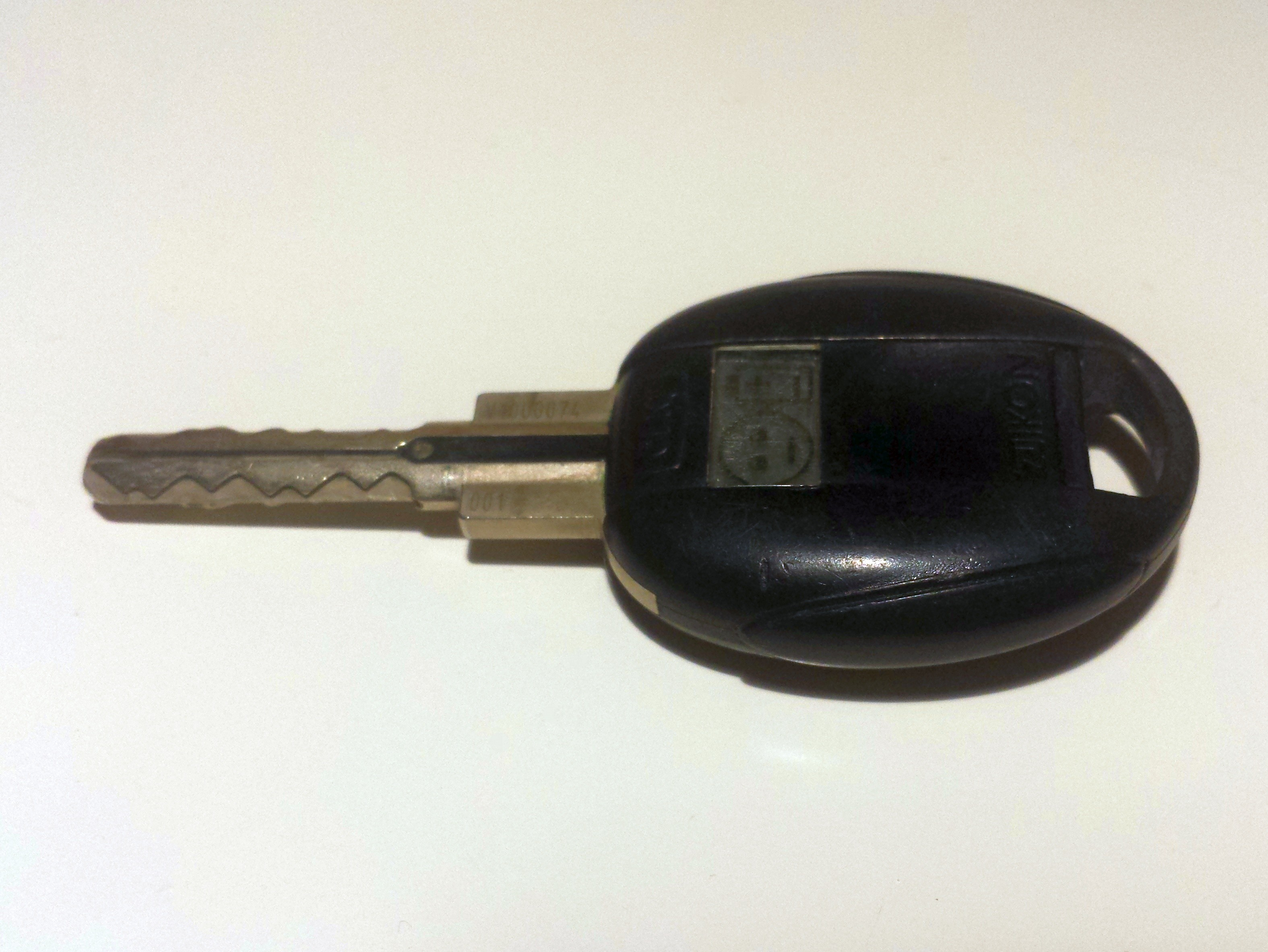 mechatronic key